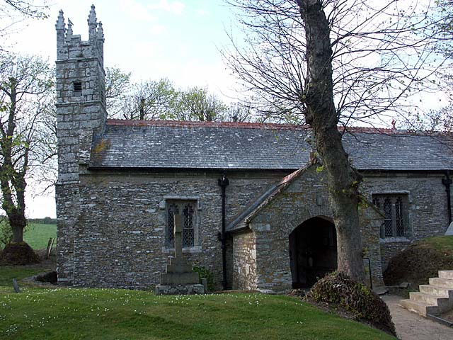 Tower and entrance to Cornelly Church.